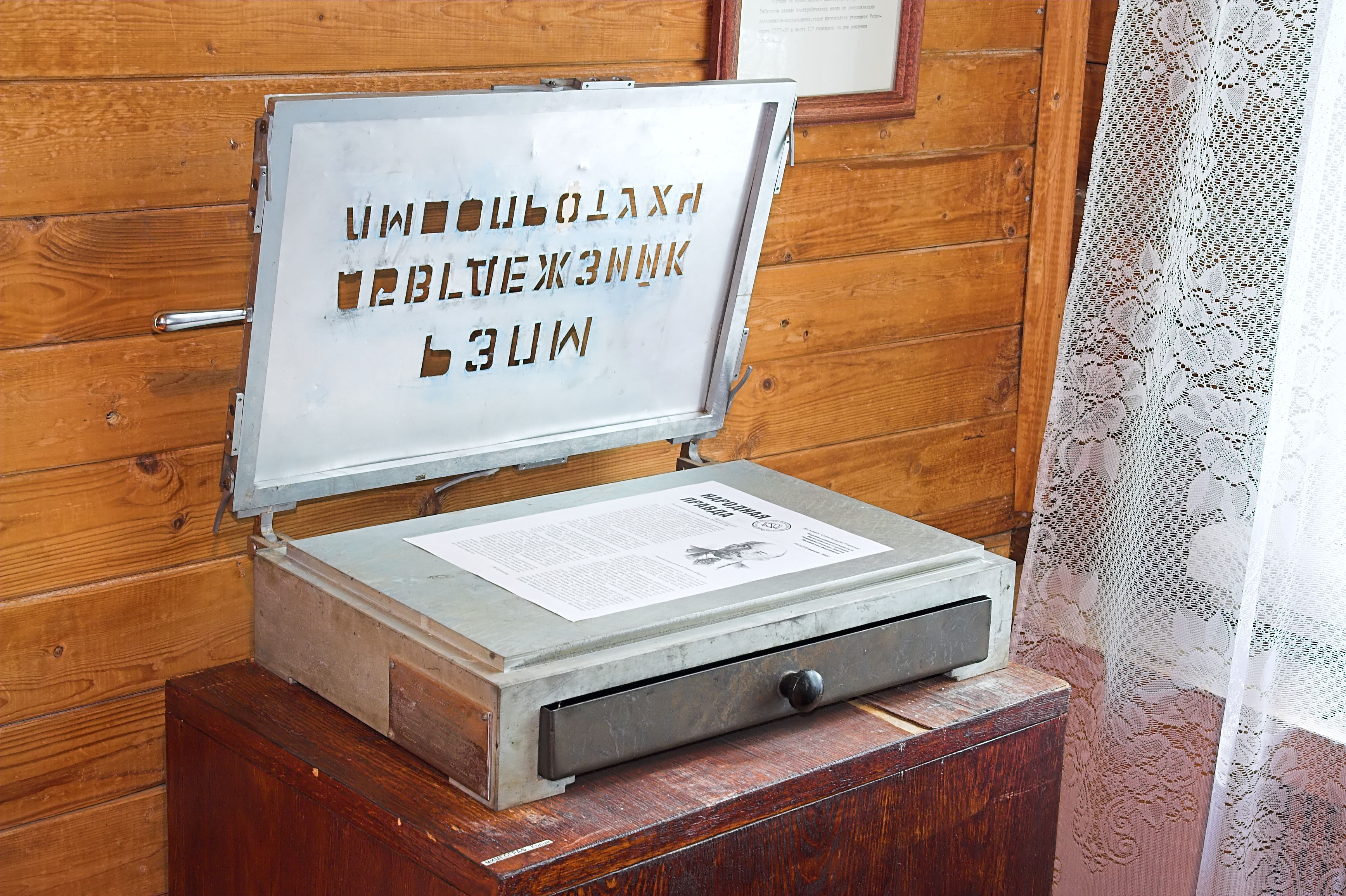 Mimeograph of a hand-cranked style